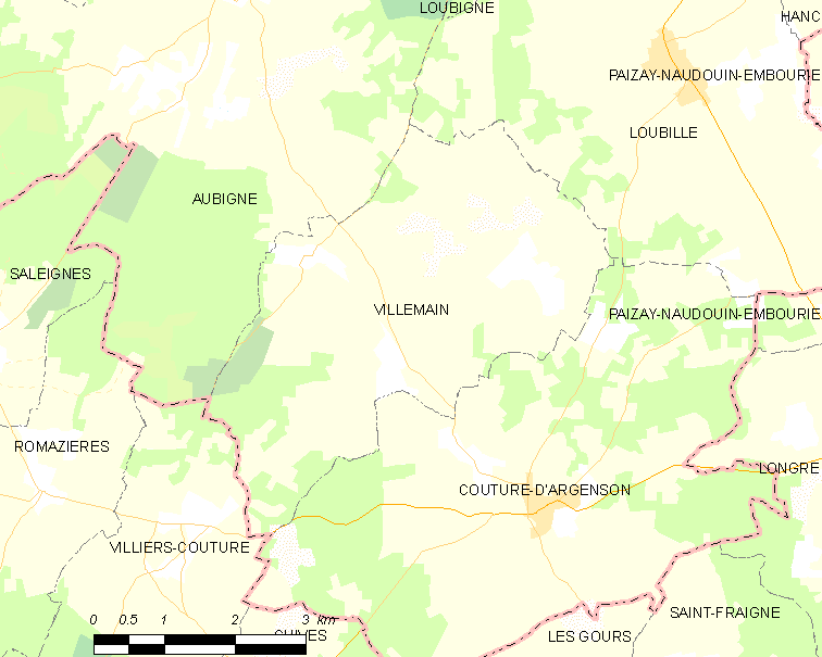 Map of French municipality Villemain